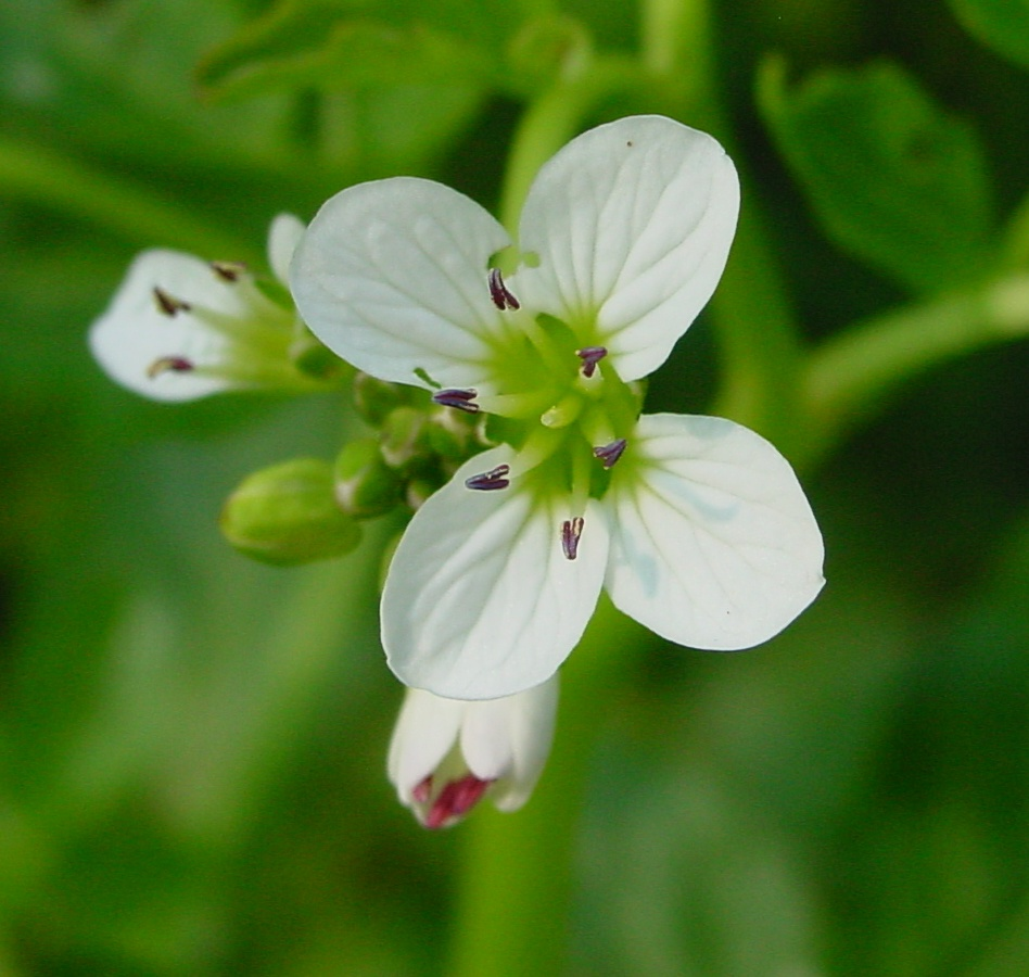 Cardamine amara, large bittercress, flower